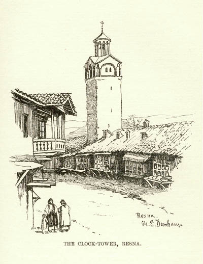 Clock tower in Resen, now in Macedonia. Burned in fire in 1908 (Drawing: Edith Durham, January 1905).